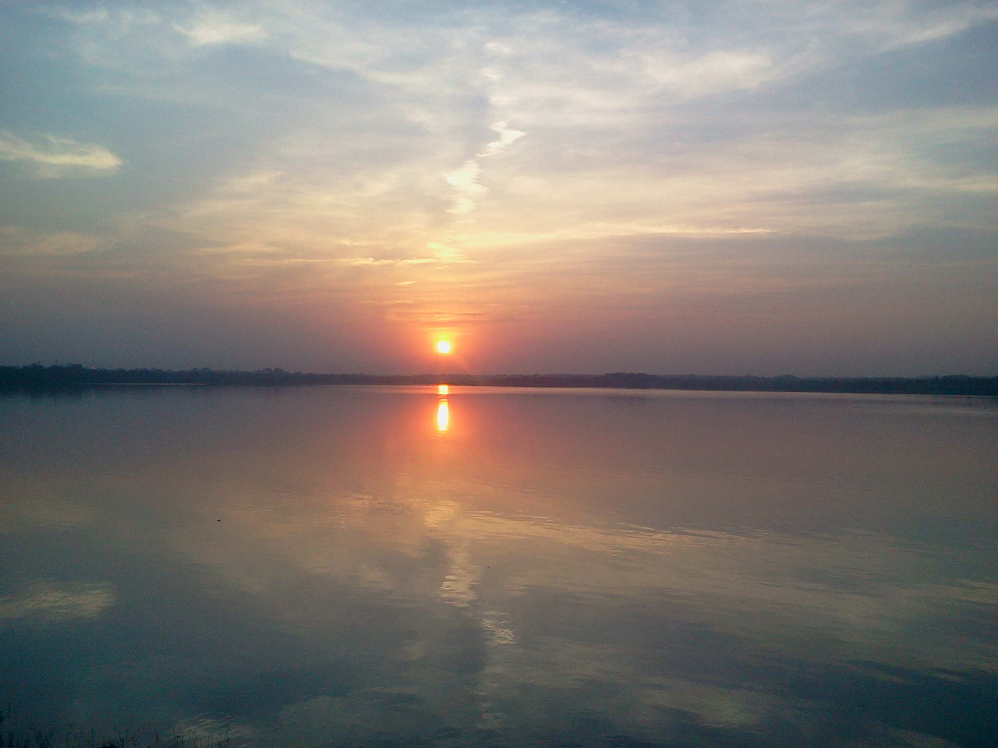 A view of gandhisagar lake at sunset.